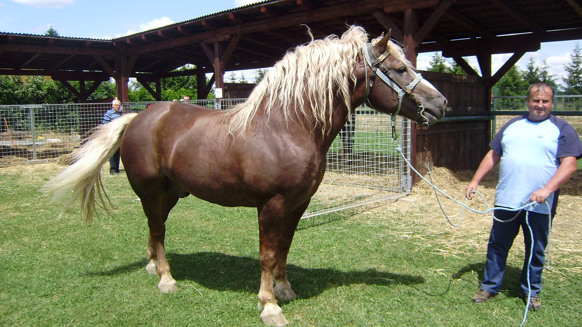 Međimurski konj (Međimurec, Medjimurie horse) = horse breed of Medjimurje, northern Croatia, at 2014 MESAP Trade Fair in Nedelišće, Medjimurje County (June 15th, 2014) - dark chestnut stallion